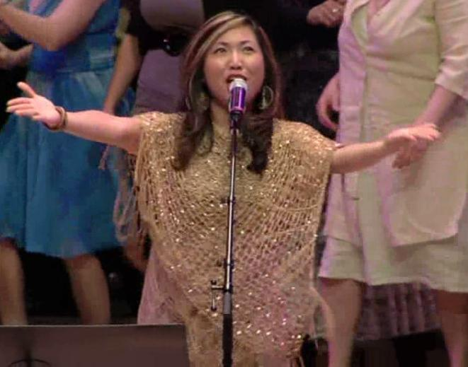 Faith Rivera singing at the Winspear Center